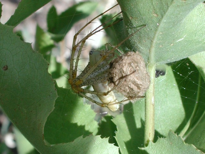 Female Peucetia viridans garding egg sac. Photographed in Superstition Mountains, Arizona, USA